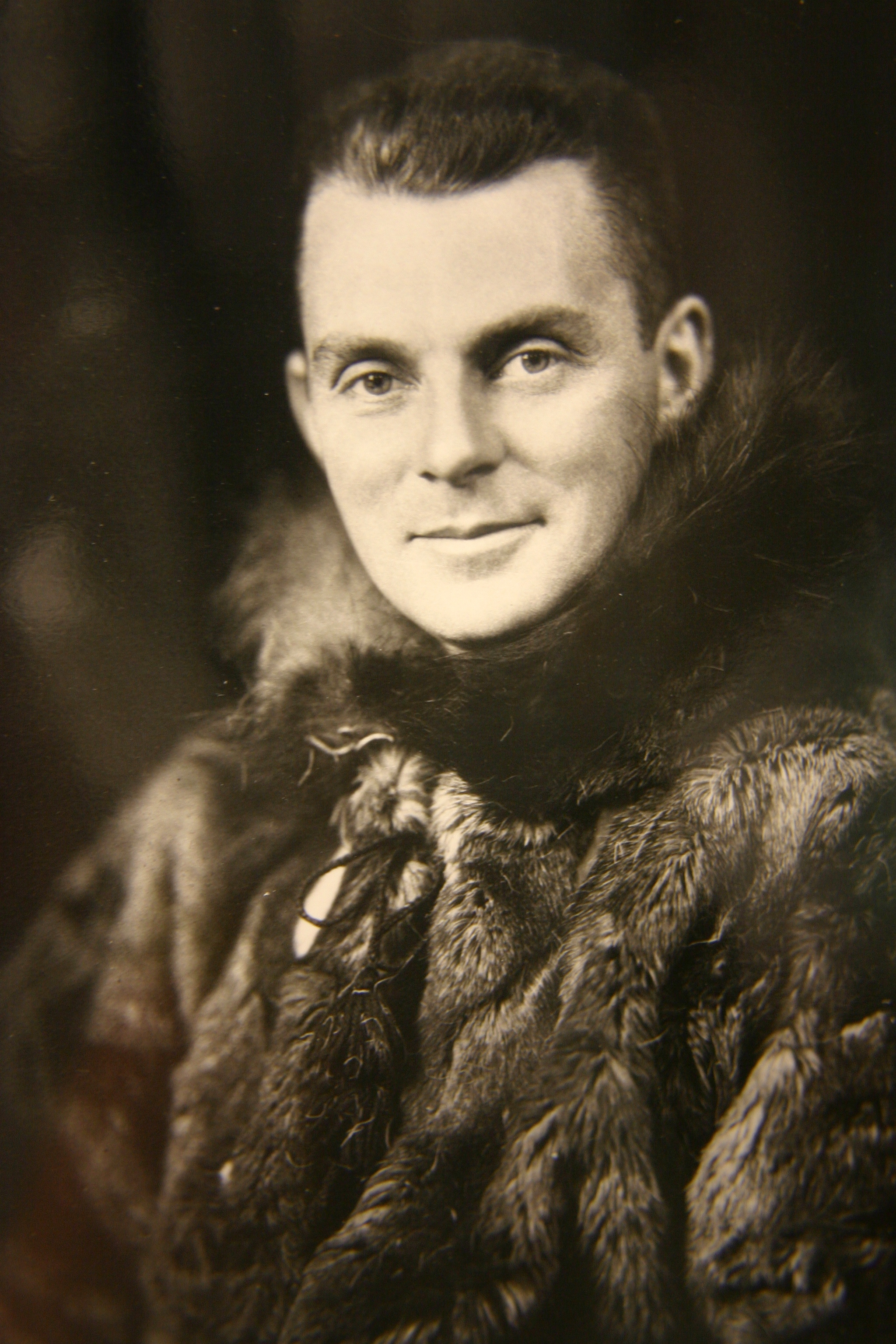 Photograph of Clennell Haggerston "Punch" Dickins, Canadian World War I ace pilot.